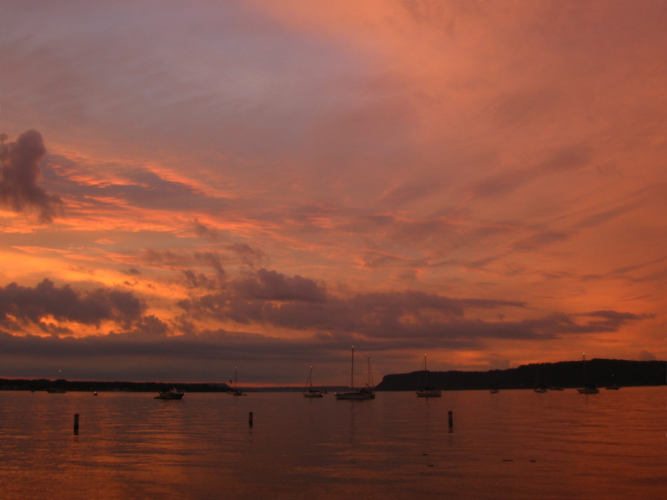 Sailboat on Lake Pepin in anticipation of 4th of July fireworks.